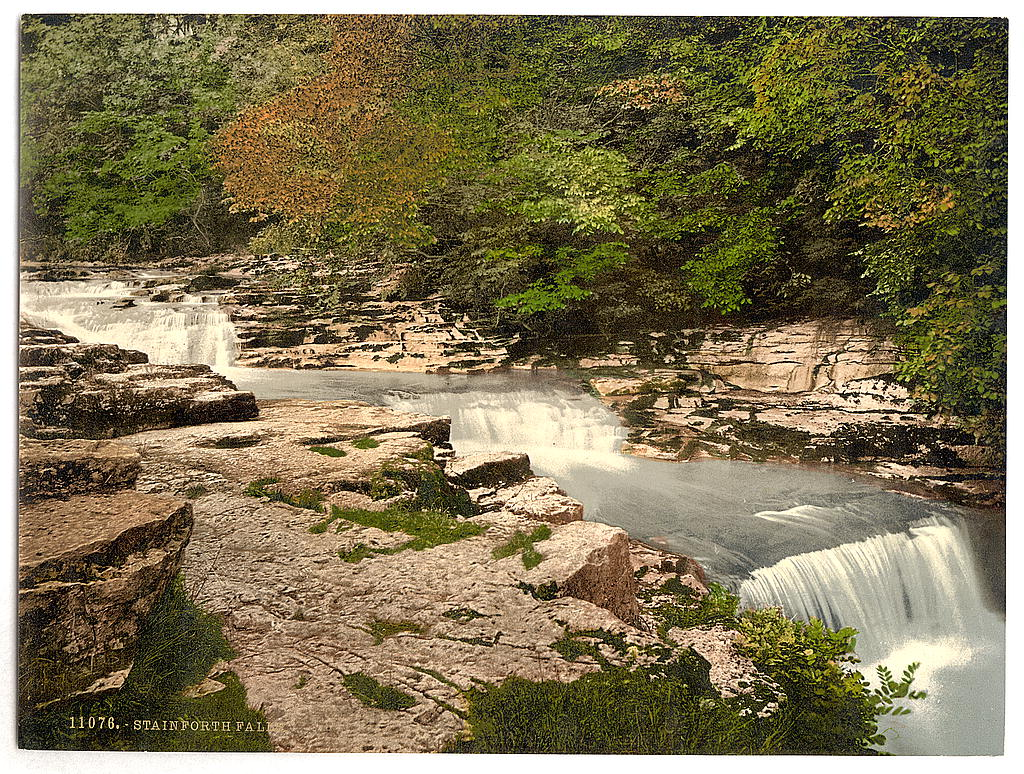 [Stainforth Falls, Yorkshire, England] [between ca. 1890 and ca. 1900]. 1 photomechanical print : photochrom, color. Notes: Title from the Detroit Publishing Co., Catalogue J--foreign section, Detroit, Mich. : Detroit Publishing Company, 1905. Print no. "11076". Forms part of: Views of the British Isles, in the Photochrom print collection. Subjects: England--Yorkshire. Format: Photochrom prints--Color--1890-1900. Repository: Library of Congress, Prints and Photographs Division, Washington, D.C. 20540 USA, Part Of: Views of the British Isles (DLC) 2002696059 More information about the Photochrom Print Collection is available at Higher resolution image is available (Persistent URL): Call Number: LOT 13415, no. 1086 [item]